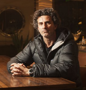 Fotografía de Urko Suaya